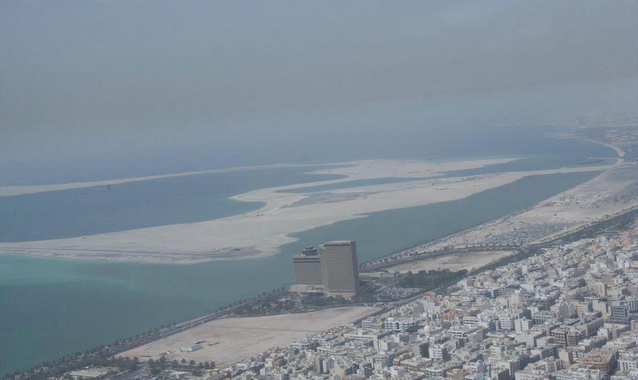 This is a photo showing the construction of the Palm Deira in the Persian Gulf off the coast of Deira in Dubai, United Arab Emirates as seen from the air on 1 May 2007. The building adjacent to the water is the Hyatt Regency Dubai. Deira can be seen in the bottom right of the image.